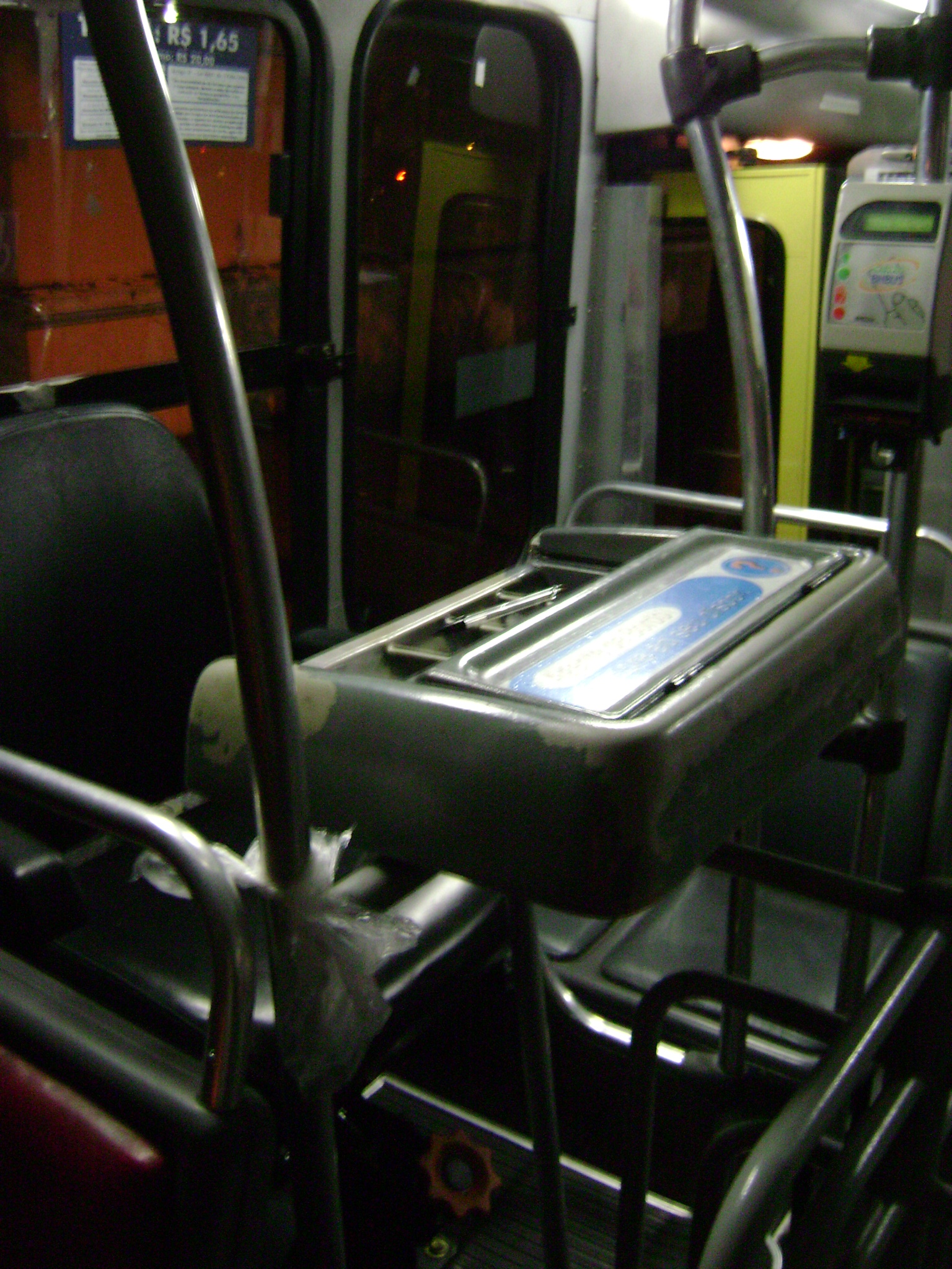 Roleta de ônibus (em Belo Horizonte).